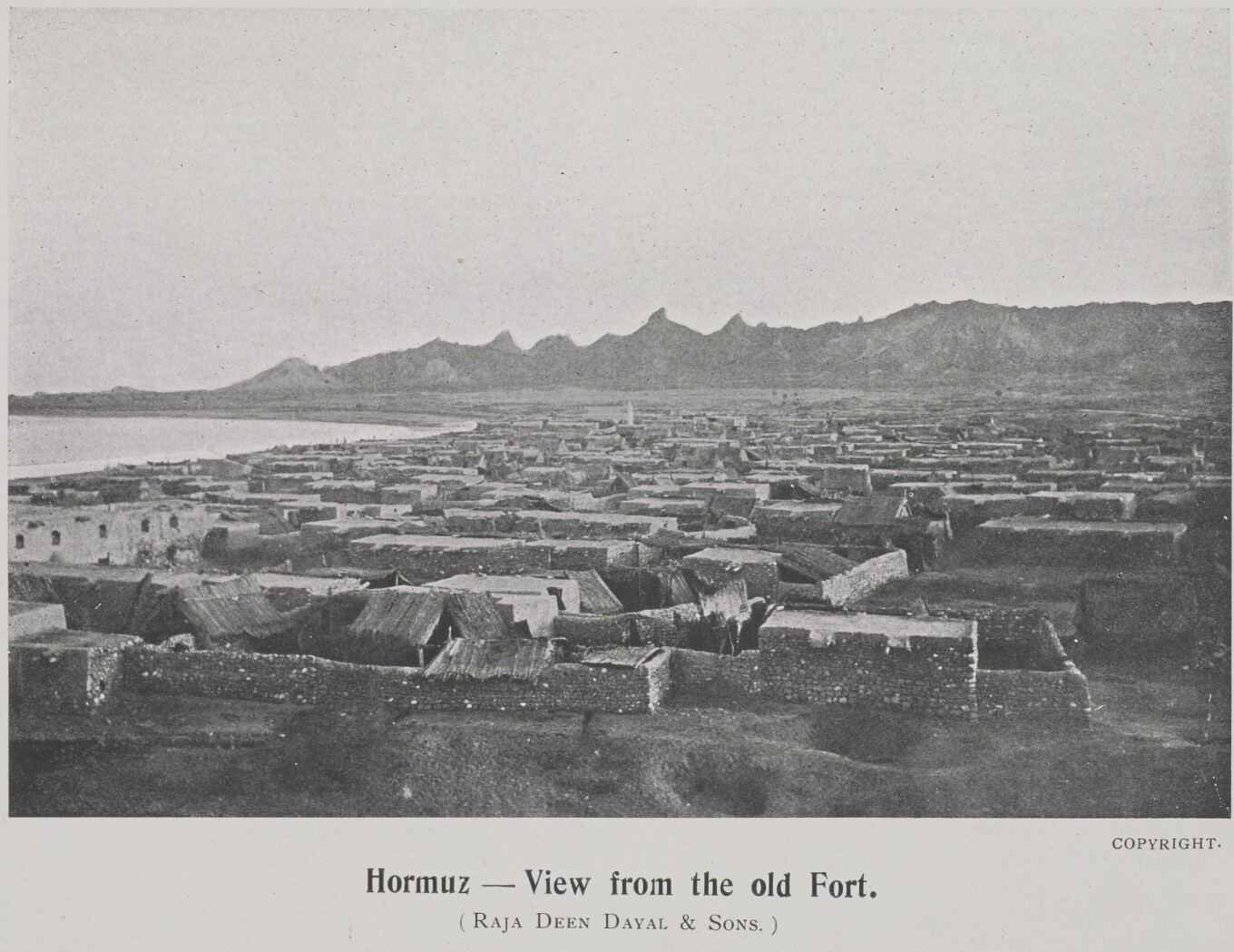 Hormuz - View from the old Fort (1908 or before photo of Hormuz village, Hormuz Island, Persian Gulf, Iran